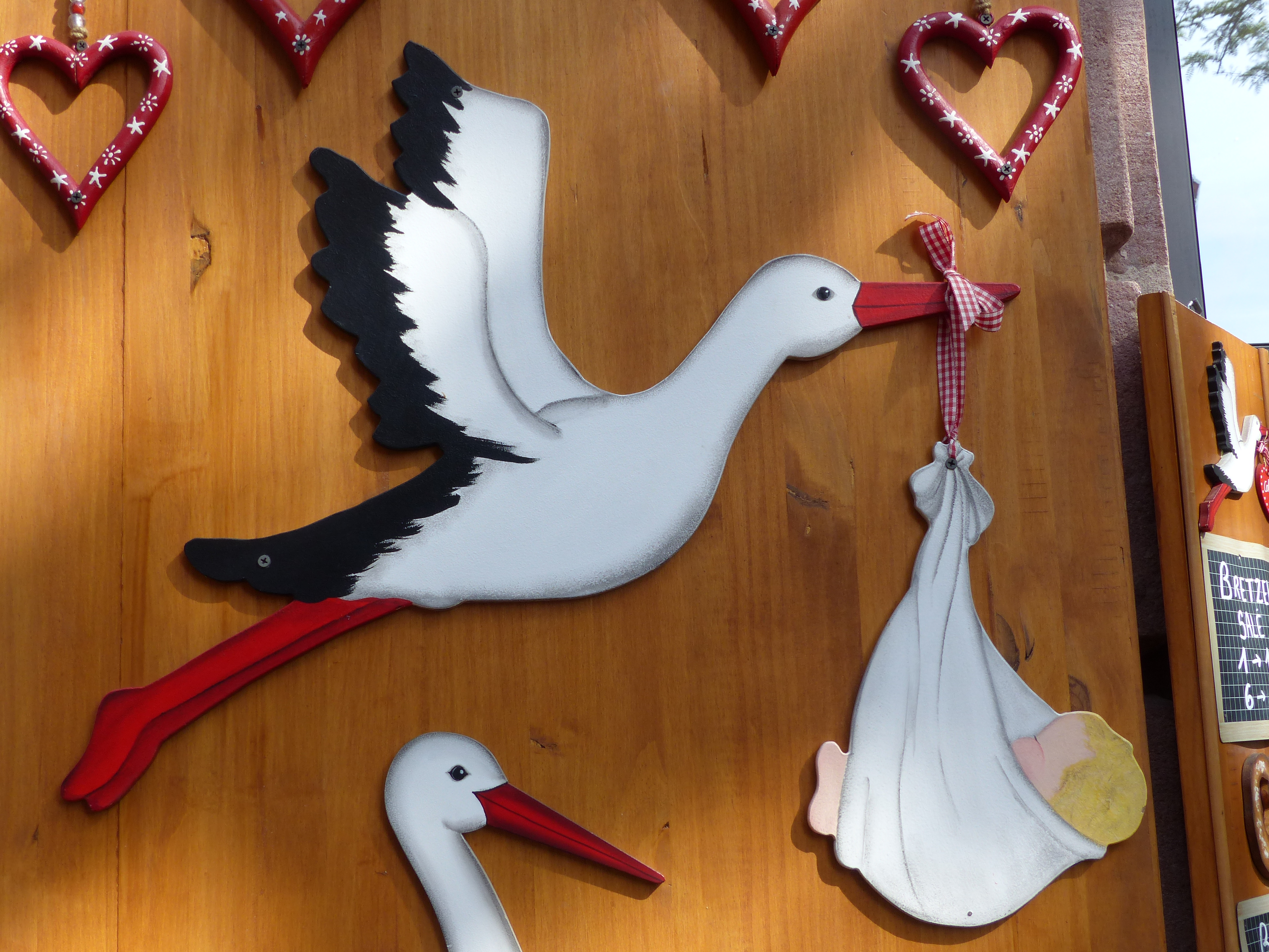 Stork bringing baby. Colmar, Alsace. Taken on the 18th of May, 2016. Decoration.